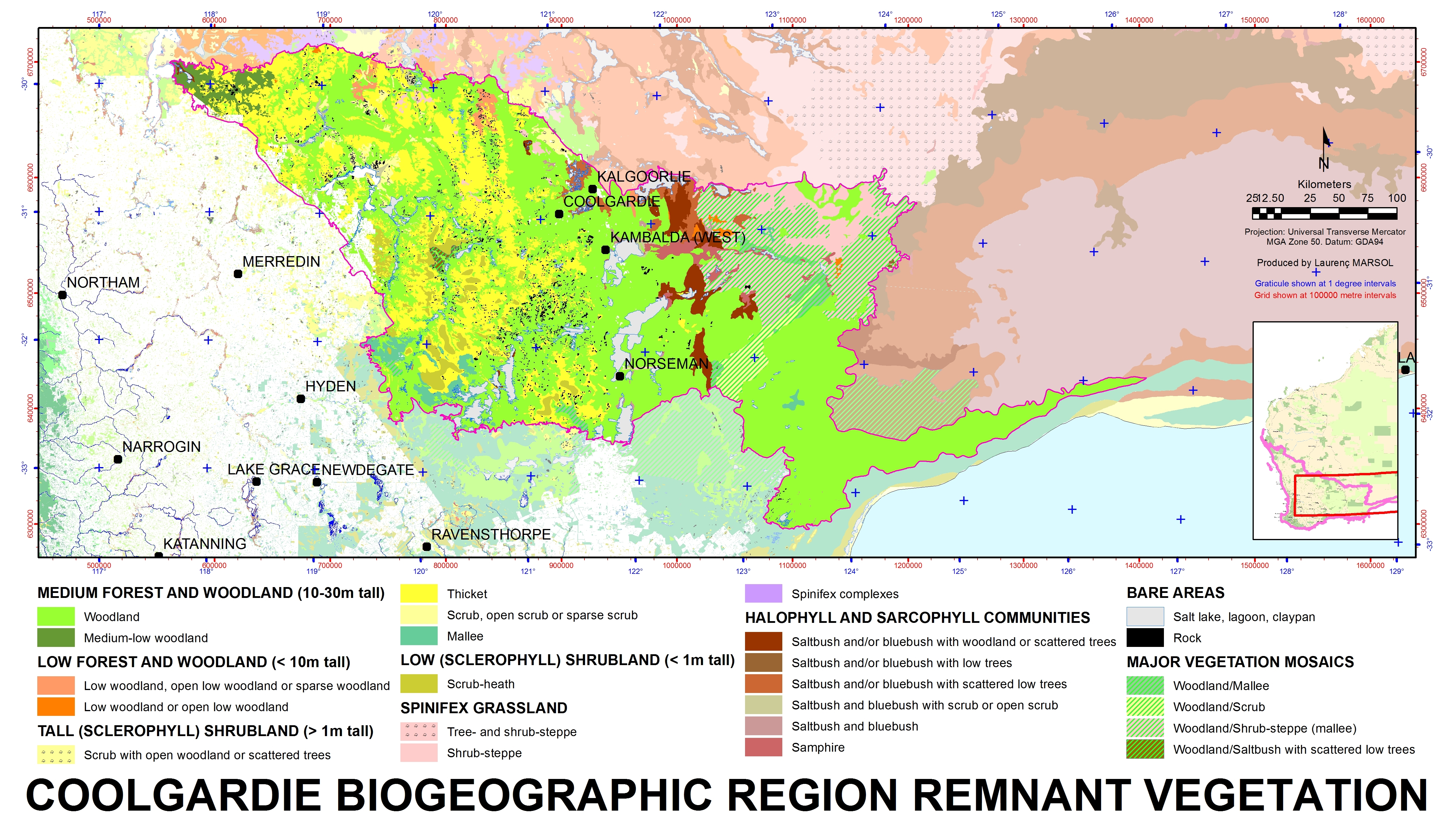 Physiognomic vegetation as in DPaW corporate data